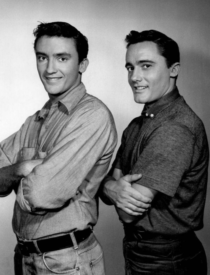 Photo of Ronnie Burns (left) and Robert Vaughn from the television program No Warning!, aka Panic! (TV series) (1957-58). Burns was the son of George Burns and Gracie Allen.